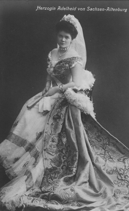 Adelaide of Schaumburg-Lippe, duchess of Saxe-Altenburg